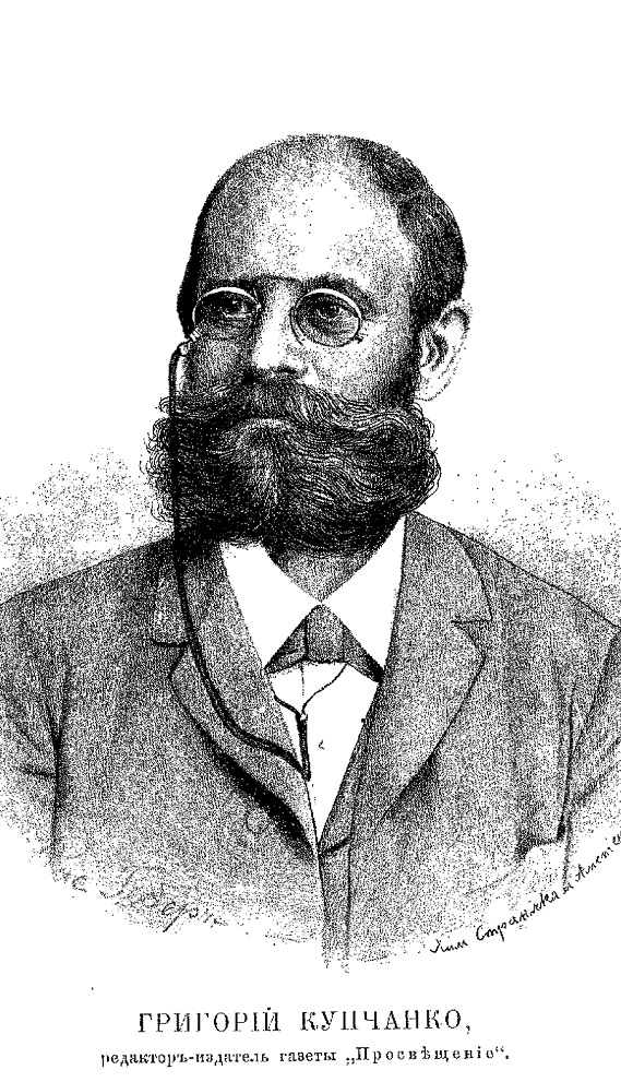 Hryhorij Kupchanko (1849—1902)